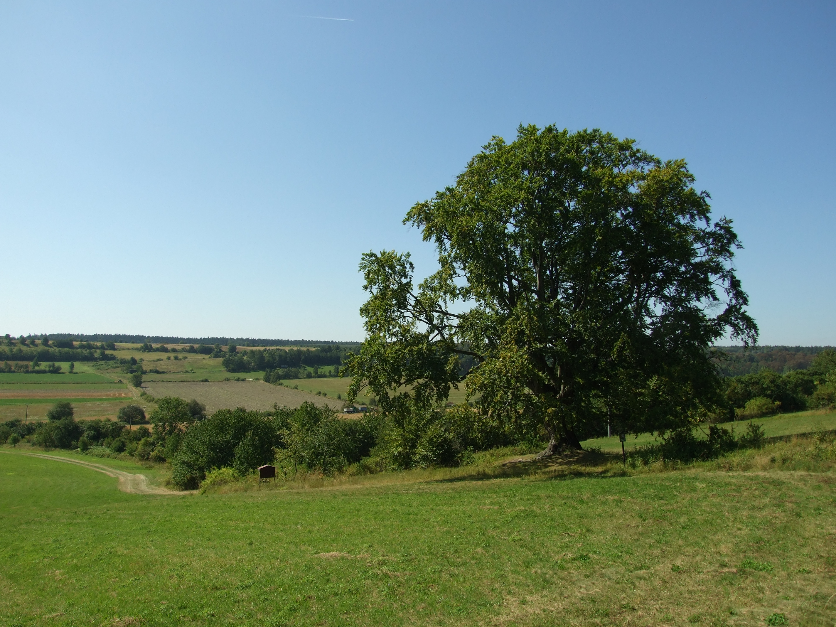 Mšecké Žehrovice village in Rakovník district, Central Bohemian region, CZ This photograph was taken within the scope of the 'Czech Municipalities Photographs' grant.